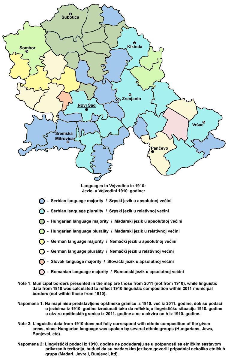 Languages in Vojvodina in 1910. Municipal borders presented in the map are those from 2011 (not from 1910), while linguistic data from 1910 was calculated to reflect 1910 linguistic composition within 2011 municipal borders (not within those from 1910). Linguistic data from 1910 does not fully correspond with ethnic composition of the given areas, since Hungarian language was spoken by several ethnic groups (Hungarians, Jews, Bunjevci, etc).